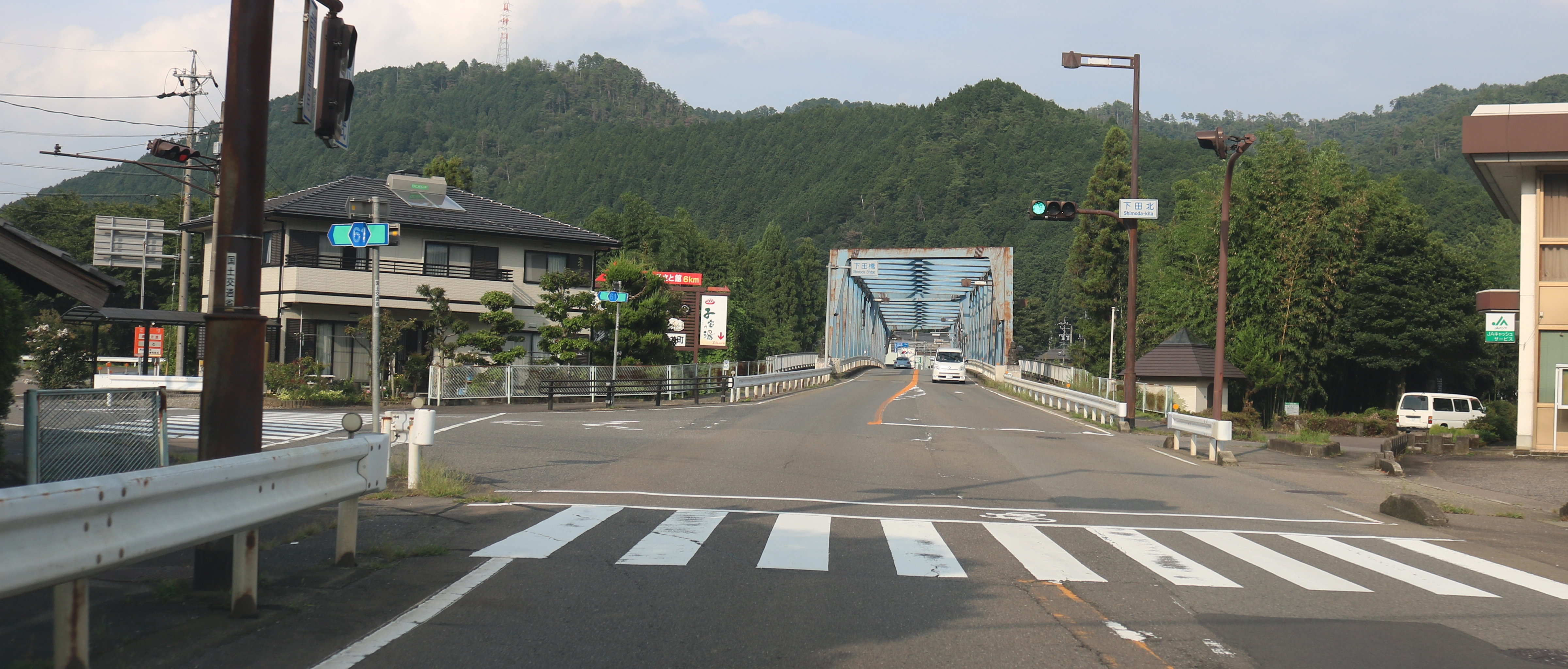 Gifu Prefectural Road Route 61 and Shimoda Bridge of Route 156 over Nagara River in Kamita, Minamichō, Gujō, Gifu Prefecture, Japan.